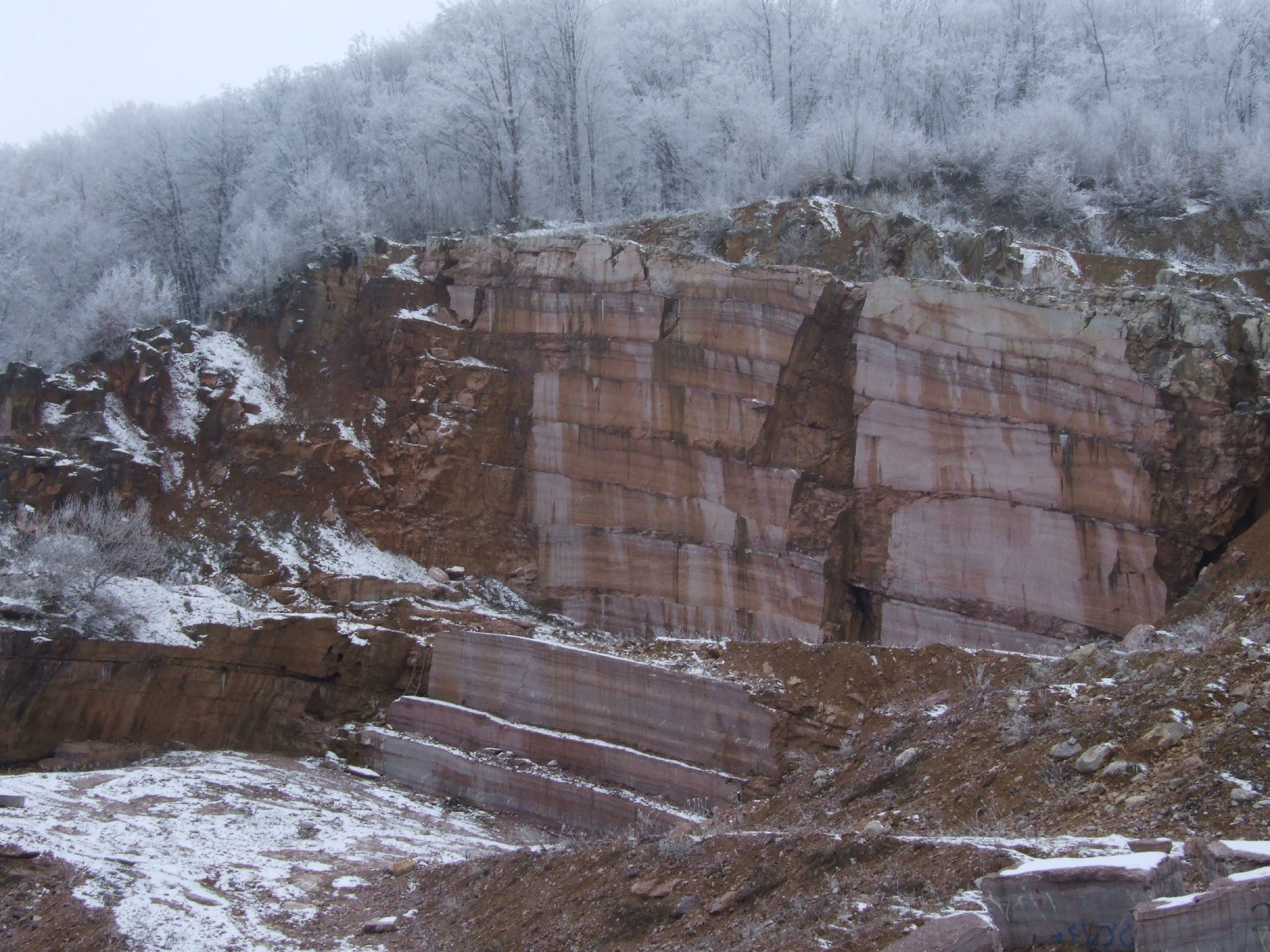 Marble quarry (jurassic limestone) near Moneasa spa resort, Arad County, Romania